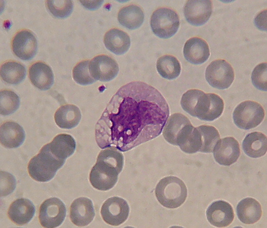 Typical monocyte, showing irregular nuclei with reticular chromatin and vacuolated cytoplasm